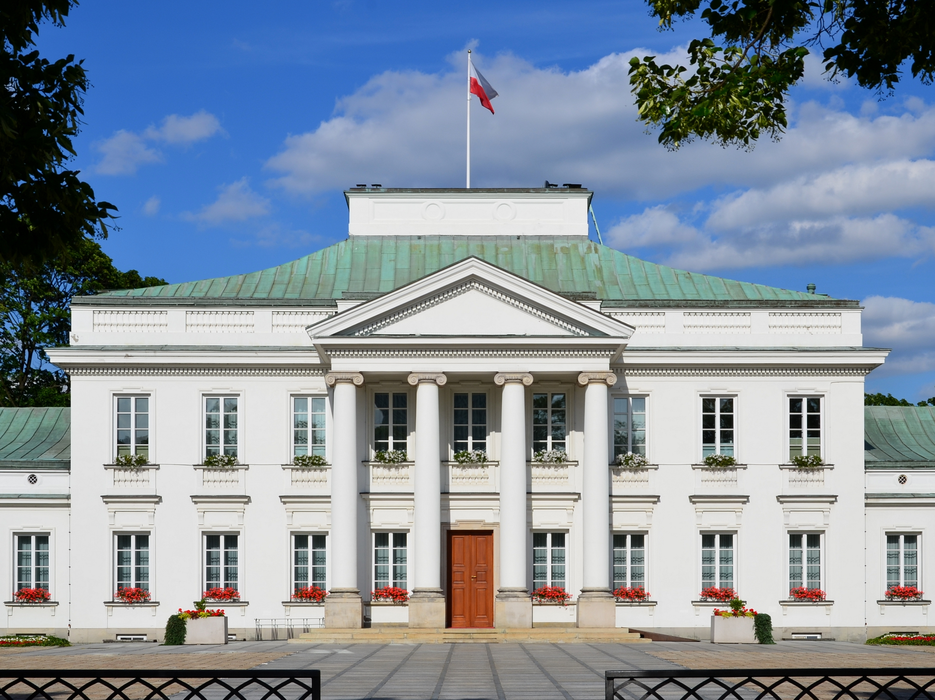 Belweder Palace in Warsaw